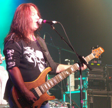 Allen McKenzie of FireHouse at the LA Guns, FireHouse, and Skid Row concert at Prairie Knights Casino 8.25.07